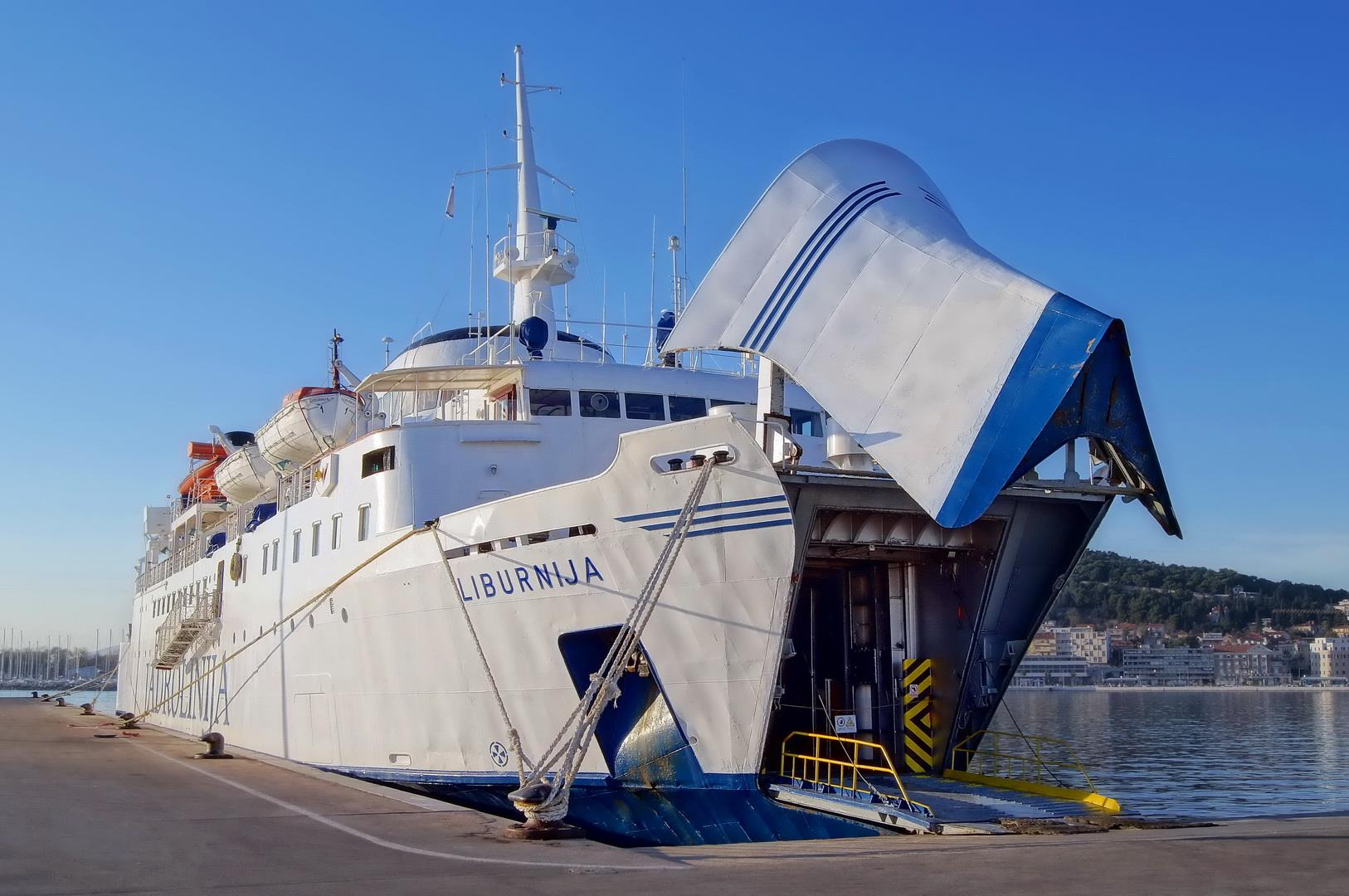 Liburnija (ship, 1965) IMO 6511350, Split 2013-12-15, CET 15h04m57s Position of the ship: N 43°30'05", E 16°26'14"; Heading 94°